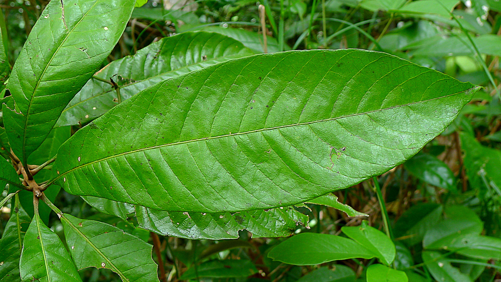 Pouteria torta Radlk. subsp. gallifructa (Cronquist) T.D.Penn., Sapotaceae, Atlantic forest,... Tree 30 m.